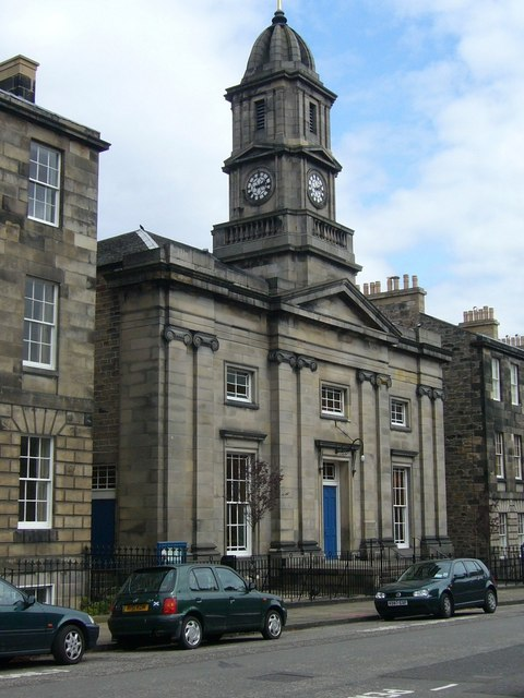 St Bernard's Church, Saxe Coburg Street The church was designed by James Mylne and opened in 1823.